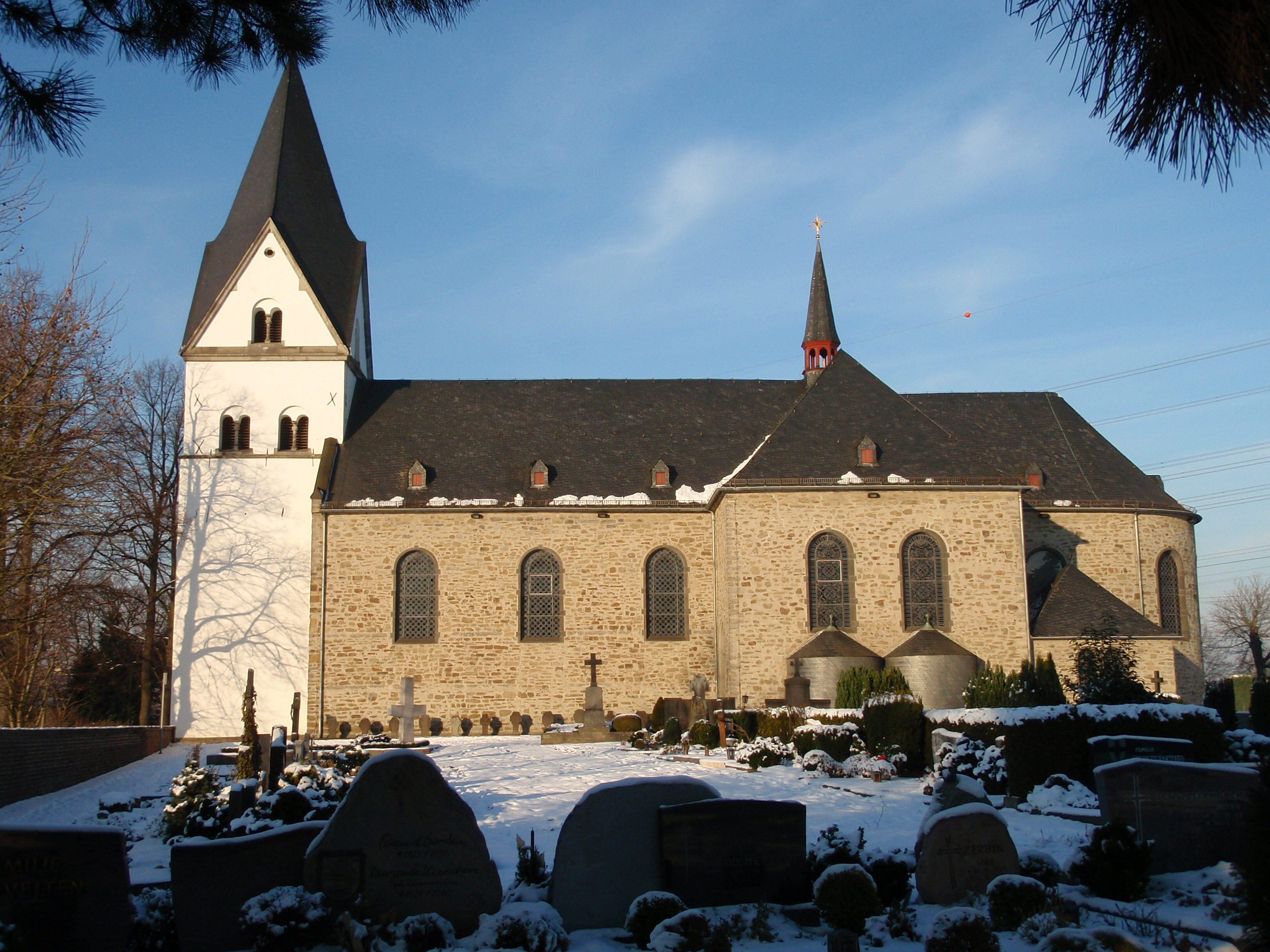 Catholic church St. Martinus in Sankt Augustin-Niederpleis, Germany, picture taken at 11th of January 2009